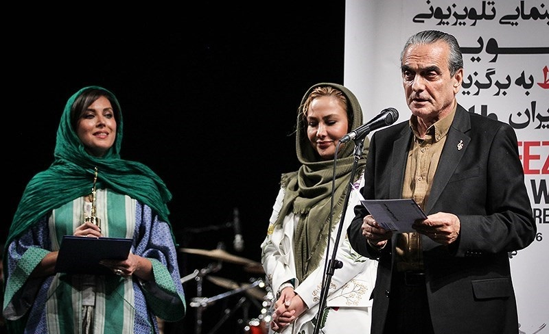 Mahtab Keramati The best actress award was presented to Mahtab Keramati for 'The Ice Age' and she received her Hafez statuette from actors Homayoun Ershadi and Anahita Nemati. for more